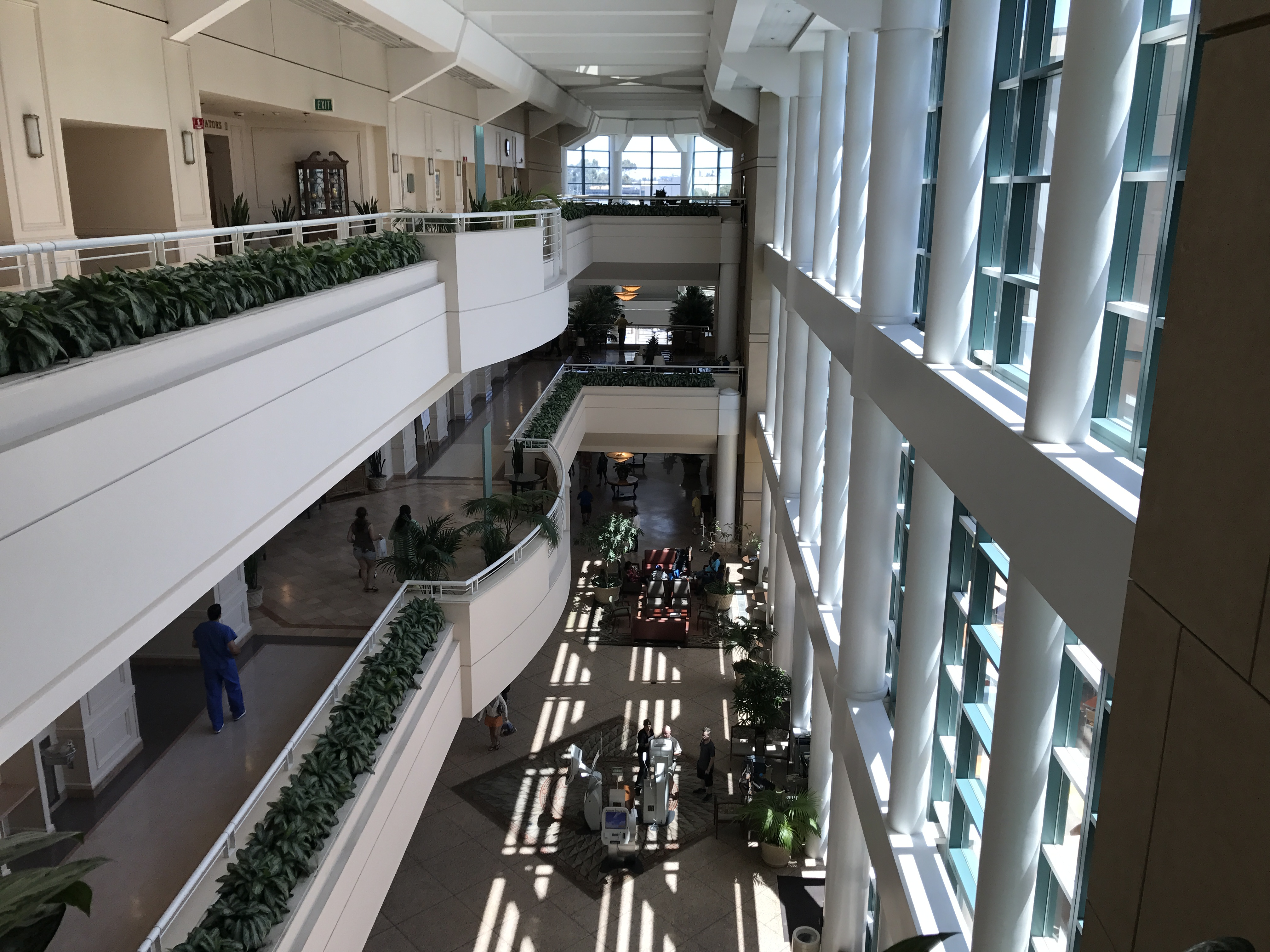 The three-story Thornton Pavilion's lobby opens upward to allow natural light to enter.